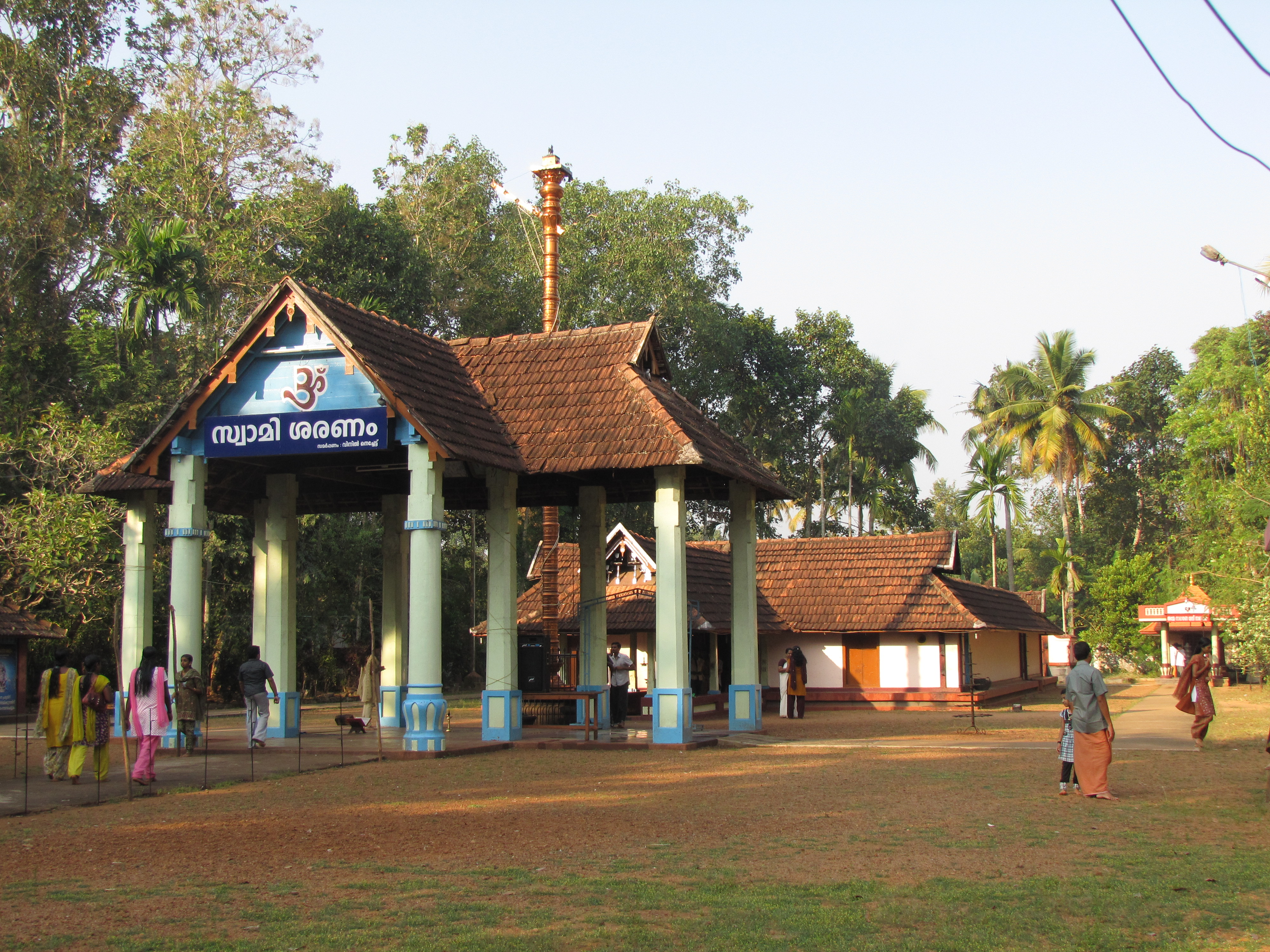 Veroor Sri Dharmashastha Temple a side view